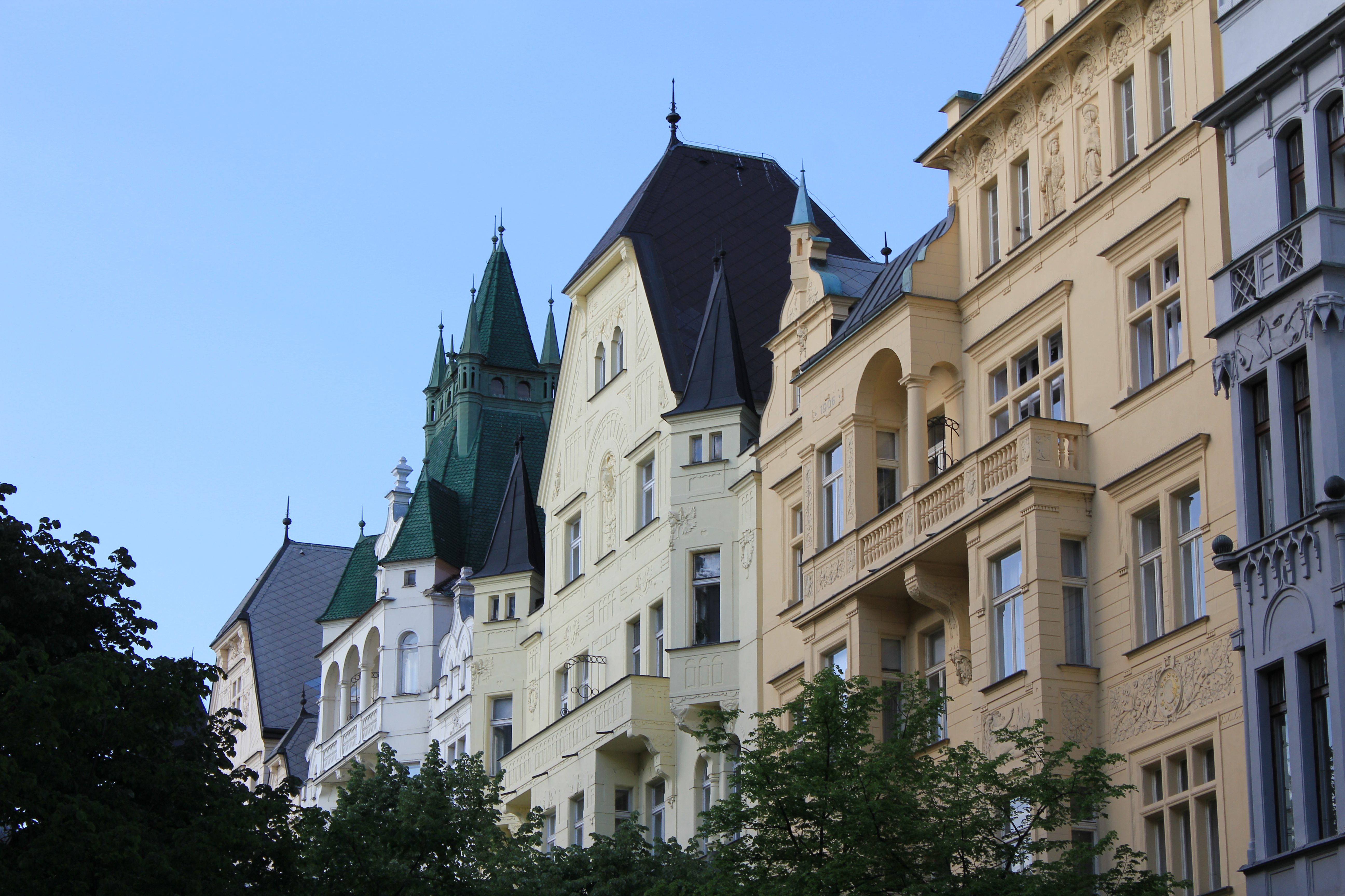 jugend style fasade JosefovNorsk bokmål: Jugendfasade i Praha